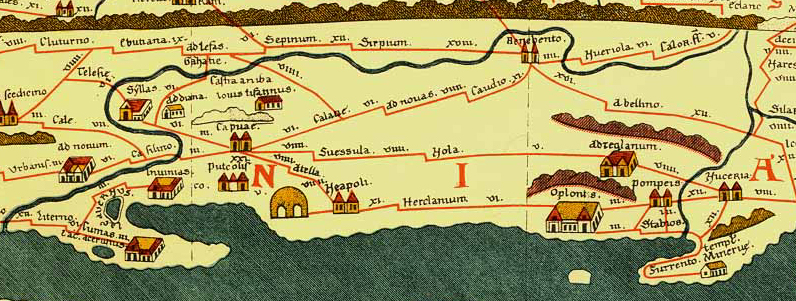 Gulf of Naples Tabula Peutingeriana